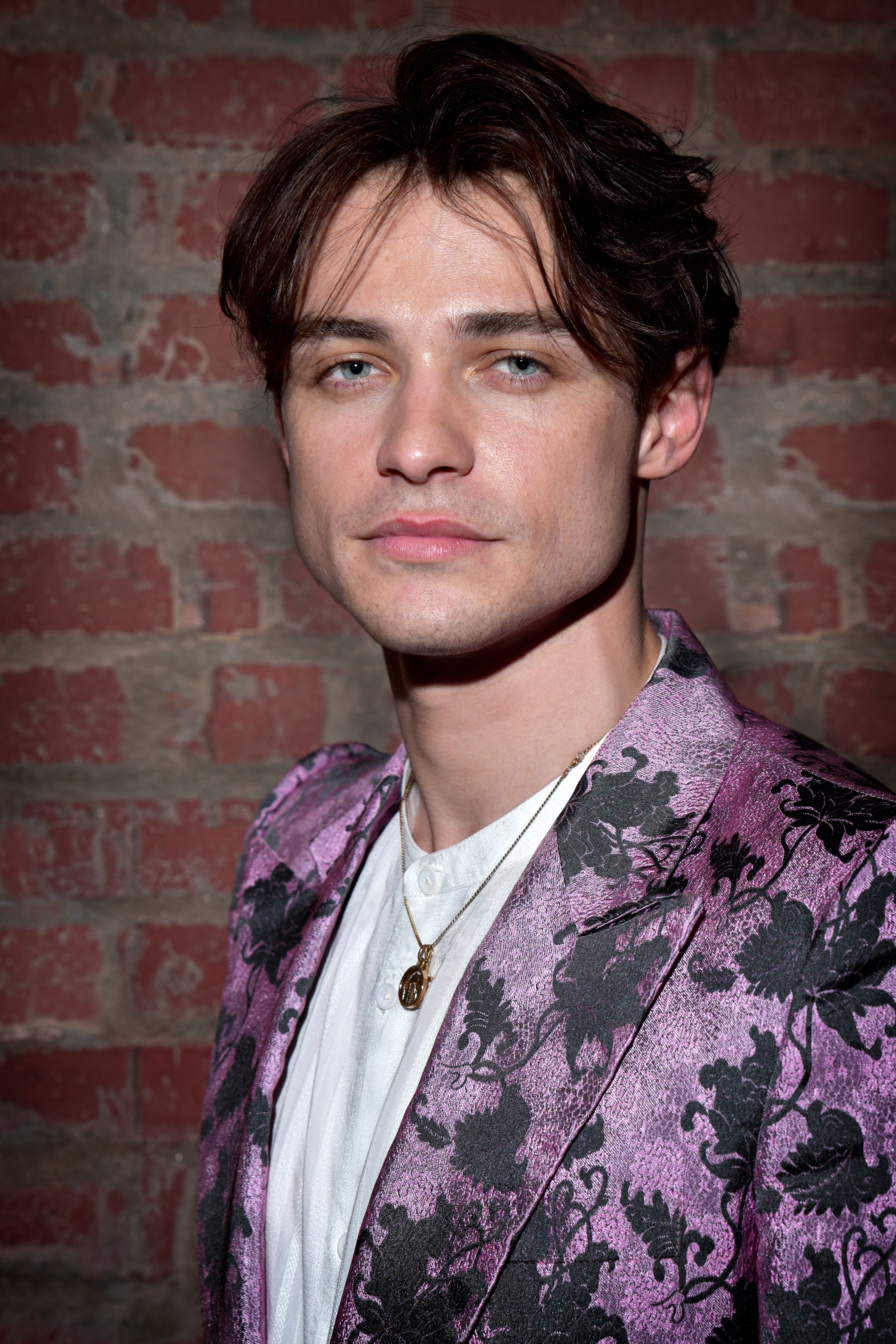 Thomas Doherty at the "High Strung Free Dance" Premiere Afterparty in Hollywood California in October 2019 - Photo by Glenn Francis of